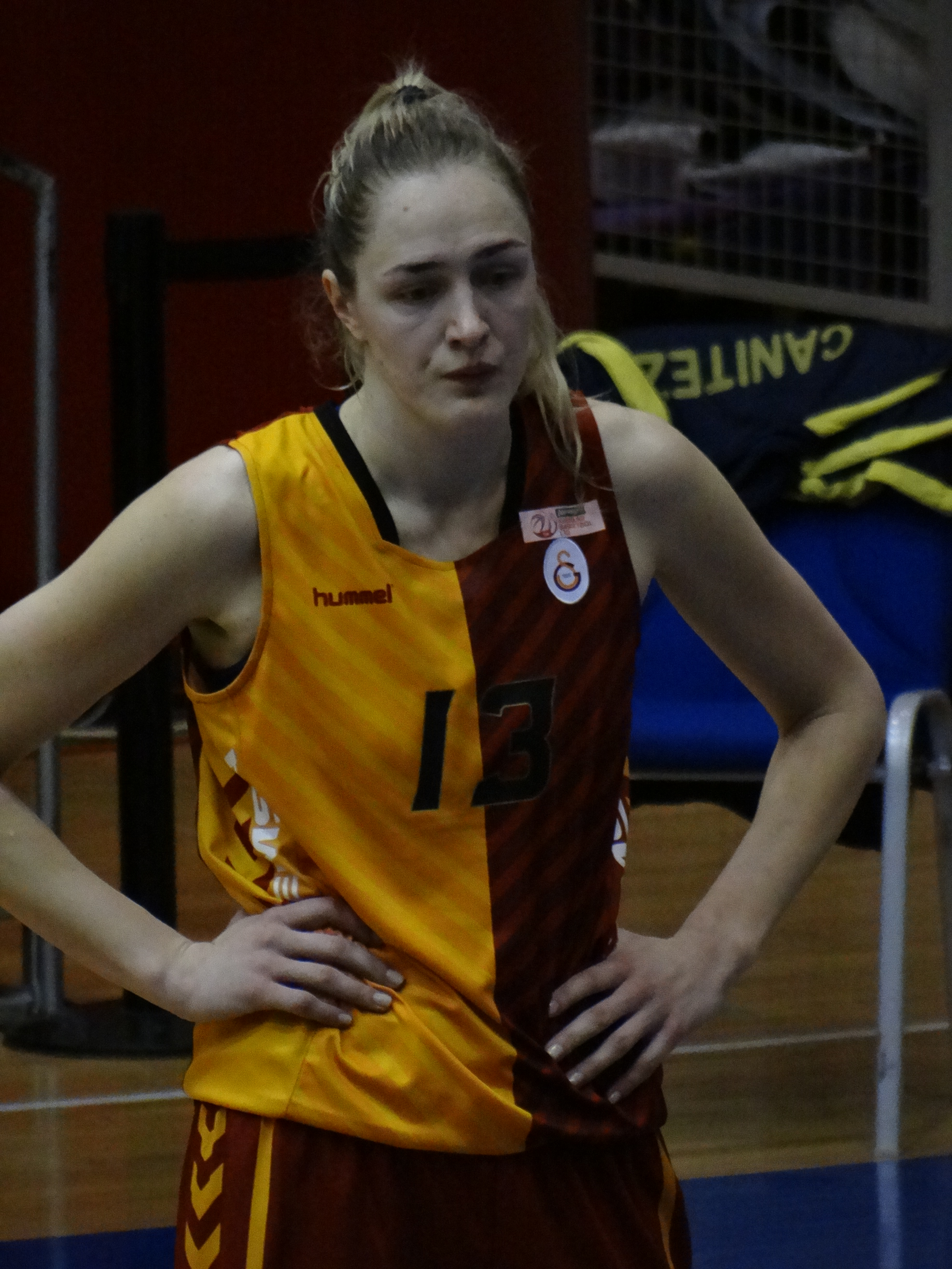 Gintarė Petronytė Fenerbahçe Women's Basketball vs Galatasaray Women's Basketball TWBL 20180408